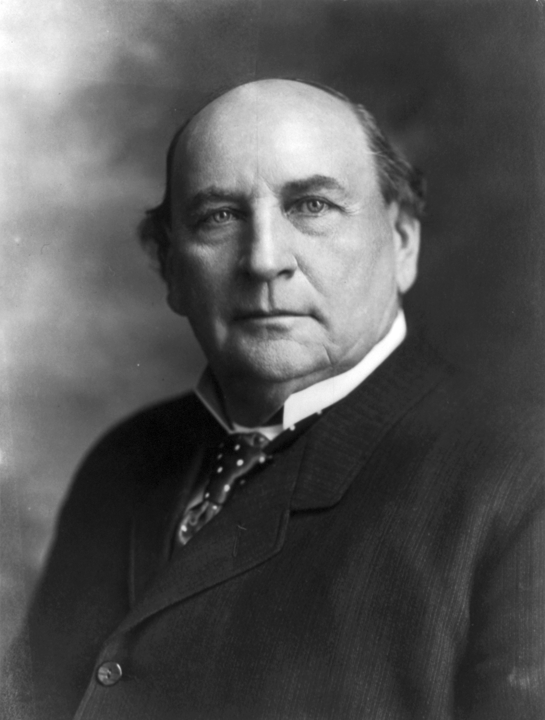 John Hollis Bankhead, bust portrait, facing left